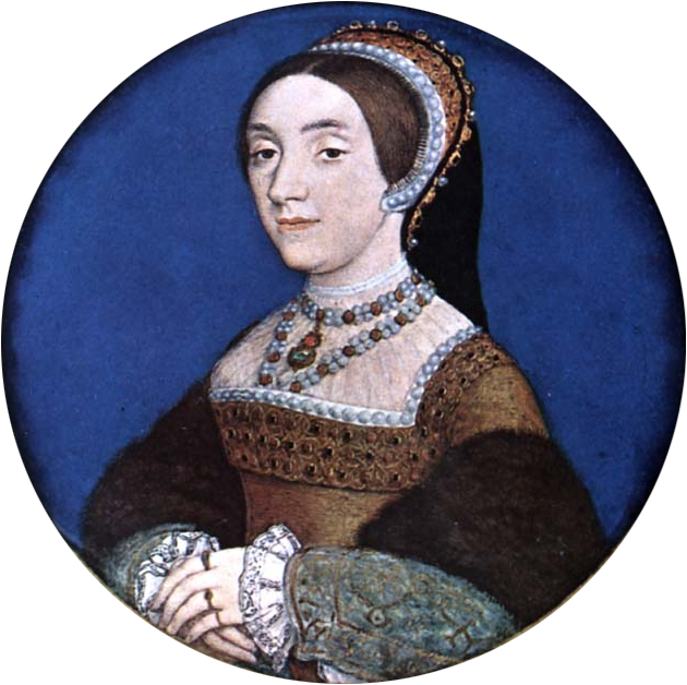 Portrait miniature of a lady, perhaps Katherine Howard, by Hans Holbein the Younger.